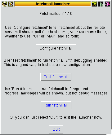 Fetchmai configuration screen